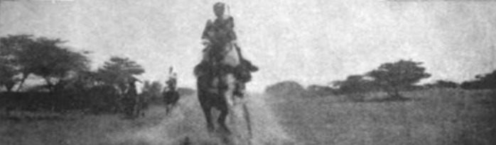 Gadabursi horsemen giving an exhibition before the visitors.